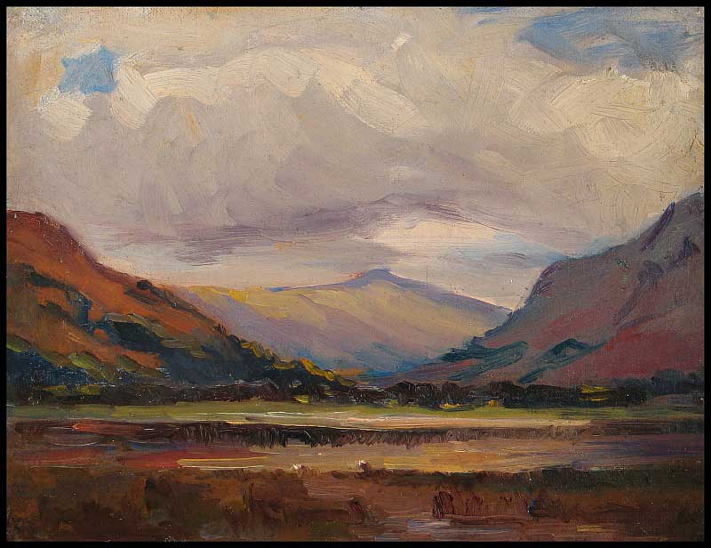 Maggie Laubser, Scottish Landscape with Lake and Mountains, undated (1916–1919), oil on canvas, 285 x 370 mm